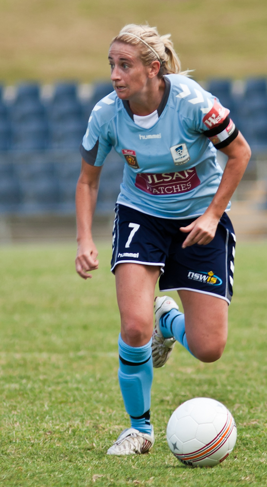 Heather Garriock playing for Sydney FC in the 2010-11 W-League.